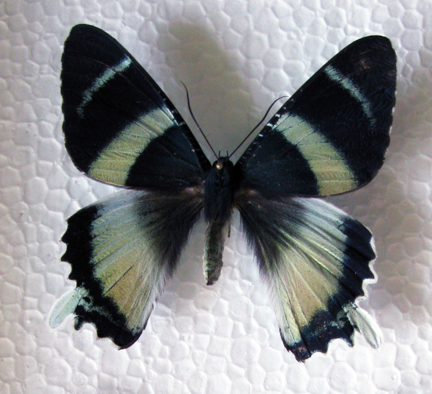 Alcidis agathyrsus = Alcides agathyrsus Kirsch, 1877 Valid Name